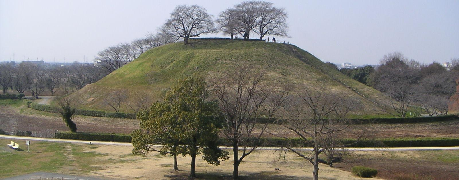 Maruhakayama kofun in Saitama prefecture